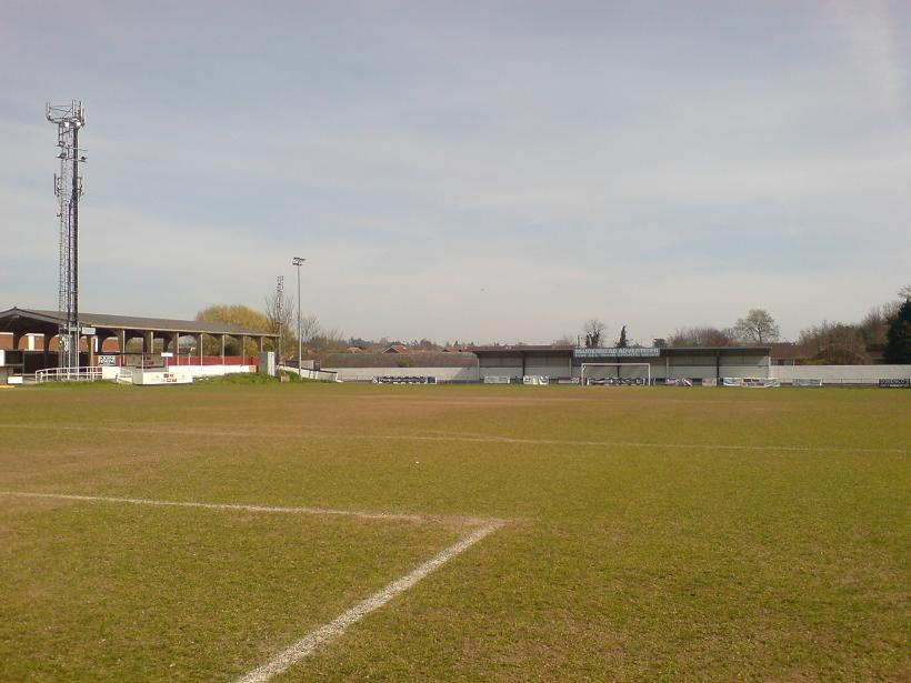 A photo of York Road, the ground of Maidenhead United F.C.